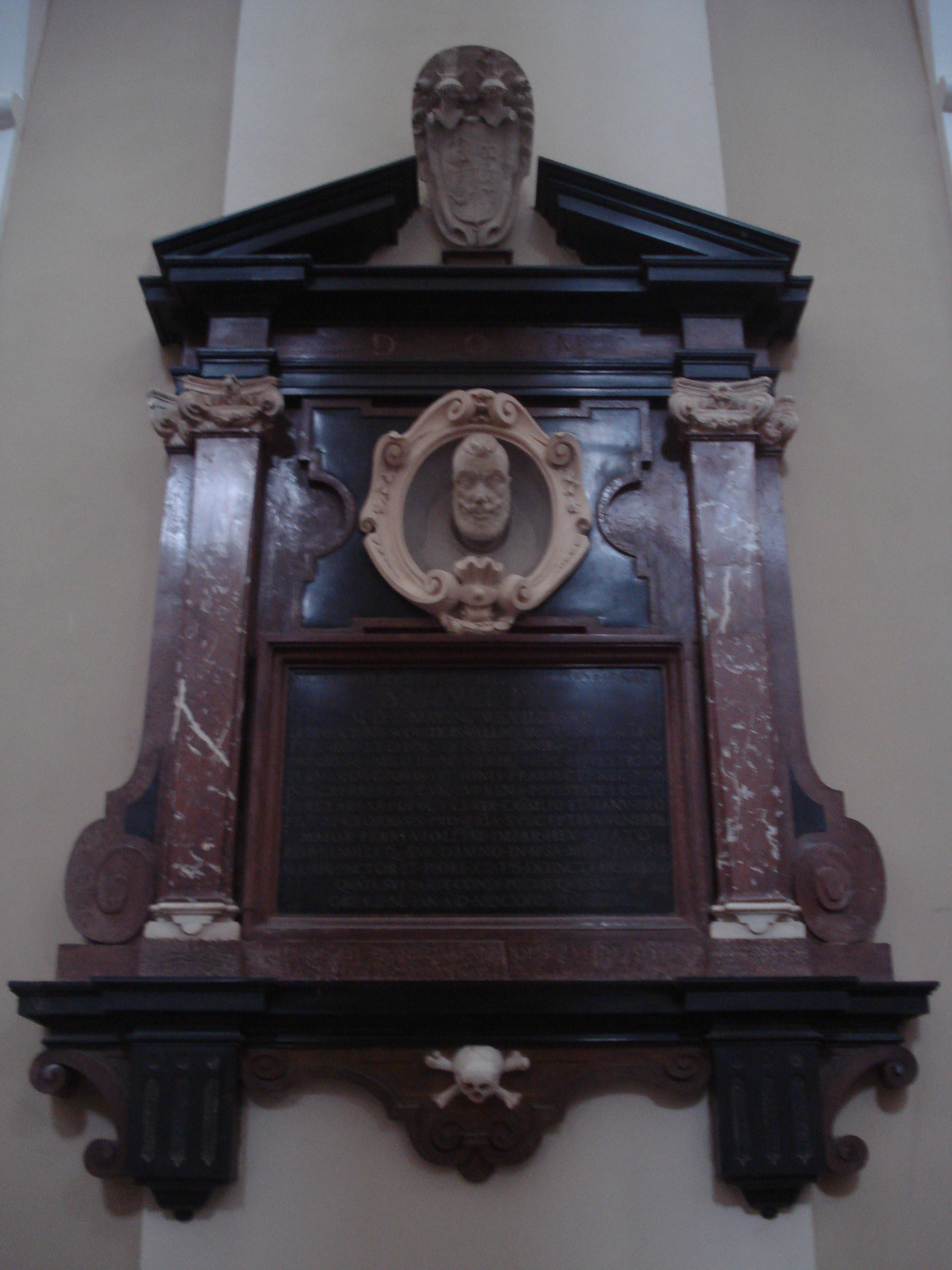 Epitaph for Samuel Pac in Vilnius Cathedral